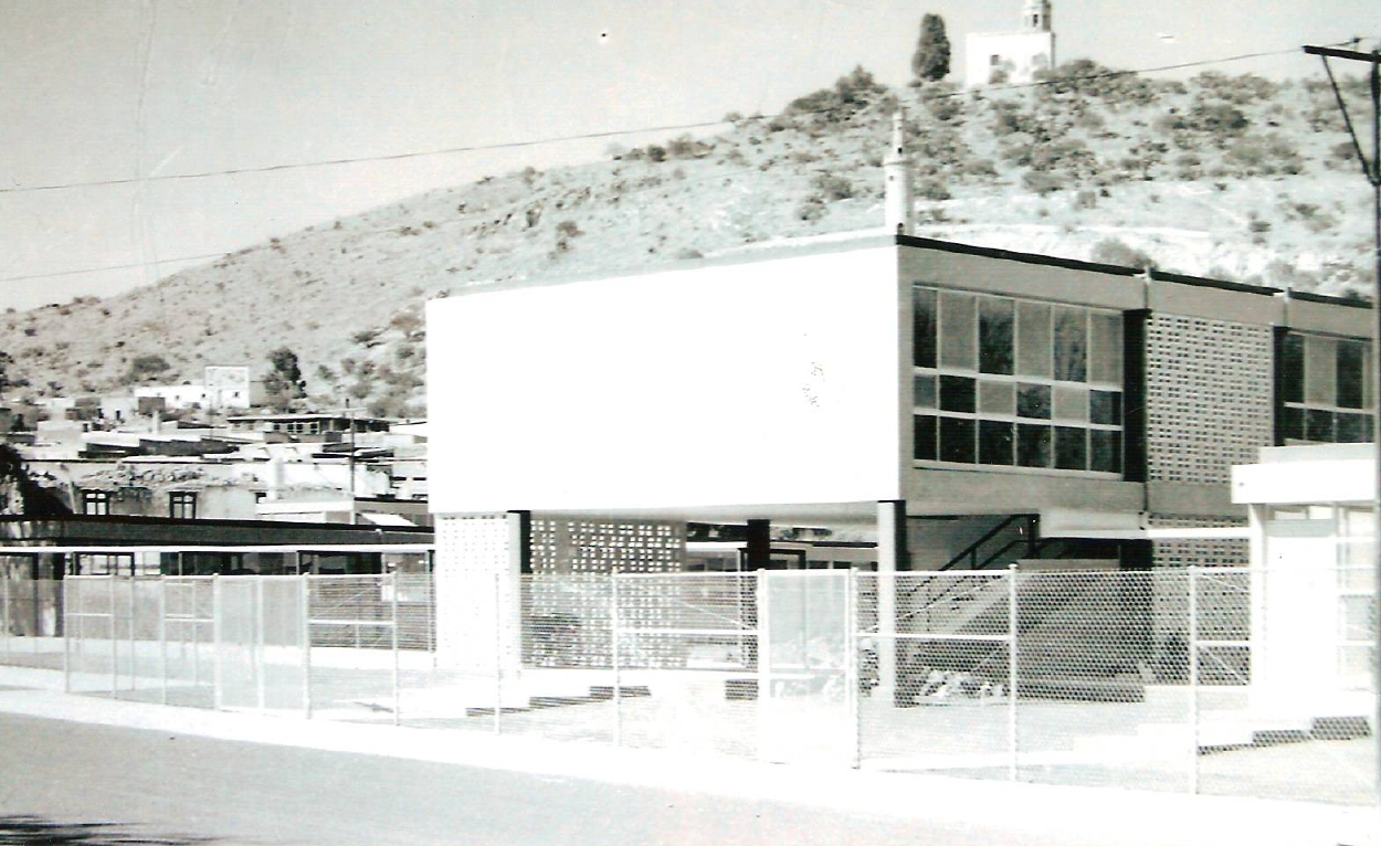 The original building housing the Universidad Juárez del Estado de Durango School of Dentistry, opened on March 14, 1974. The building held one clinic with eight visiting rooms. Professor Guillermo A. Peschard Delgado was named the first provisional director, as his organizing work with the Dental Association of Durango was what led to the school's creation. It was located on Avenidas Universidad in Durango, MX.